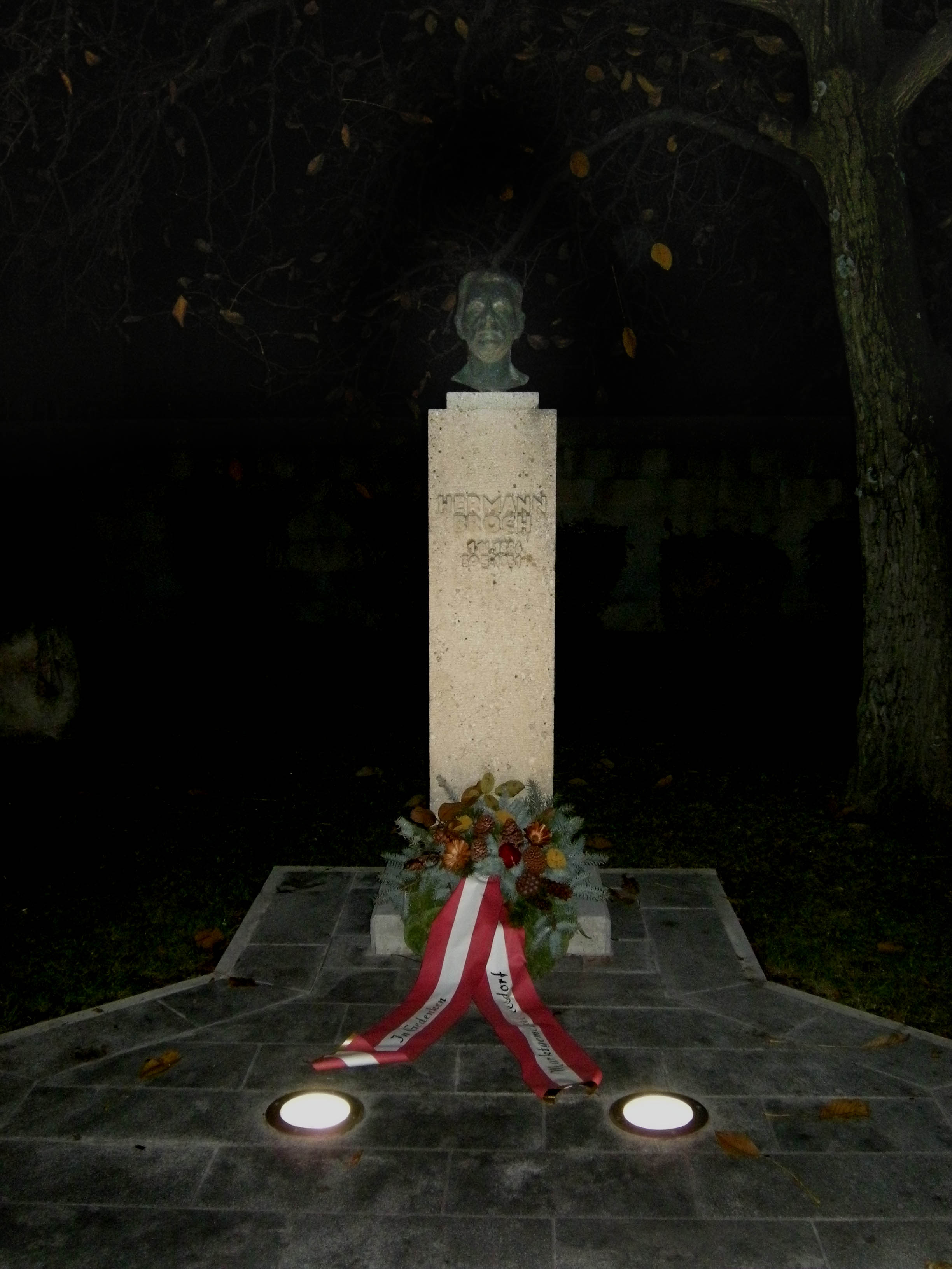 Austrian writer Hermann Broch. In Teesdorf, his father owned a spinning and weaving mill of which Hermann was the 'senior' manager until it was sold in 1927. The Broch family was highly estimated in the village of Teesdorf for being extraordinaryly kind to their workers. Please note that camera's time stamp is set to UT, which is local CET -1h. The photographer regrets to have arrived on location after daylight had gone.